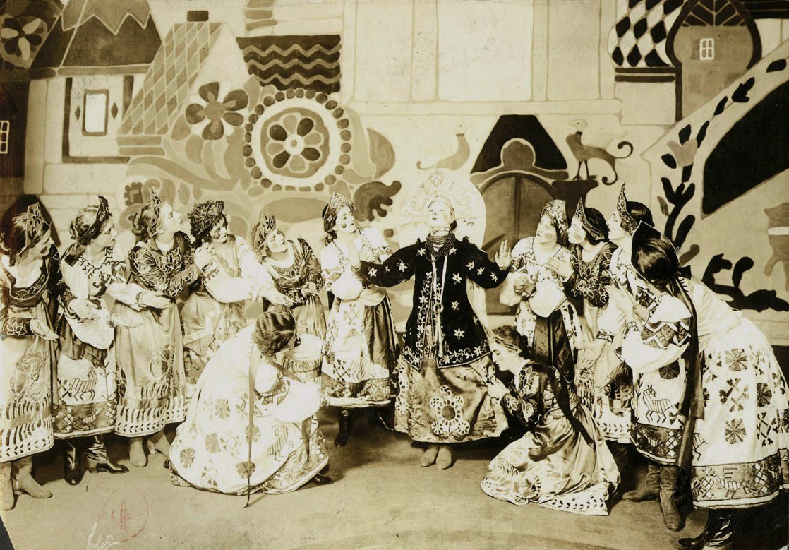 Queenie Smith (center) in Le Coq d'Or (opera by Rimski-Korsakov) at the Metropolitan Opera (original image cropped : see source)